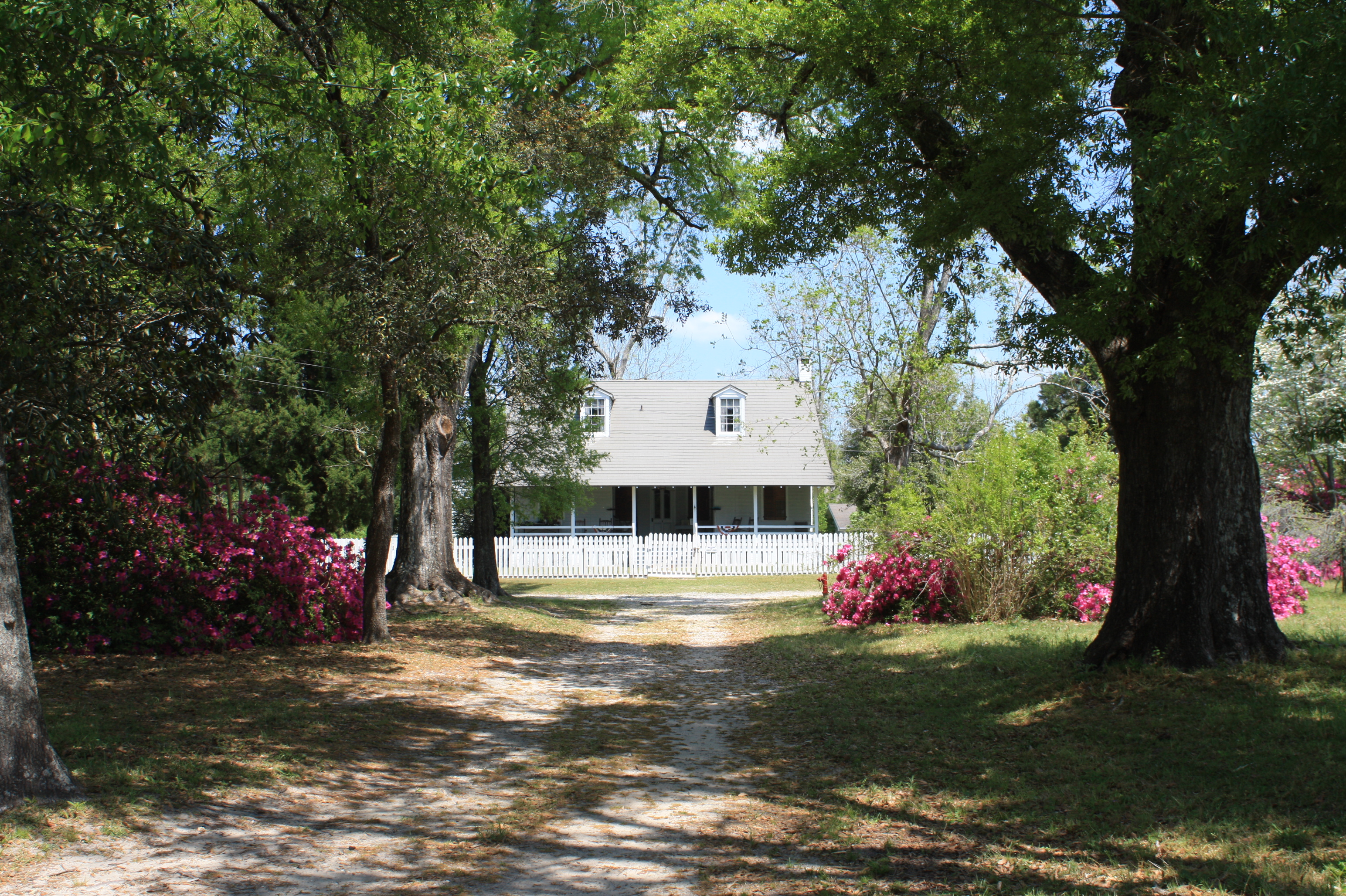 Jacob Magee House in Kushla, Alabama, United States. Site of the surrender of Mobile at the close of the American Civil War, it now serves as a museum. Individually listed on the National Register of Historic Places, it was built in 1846.